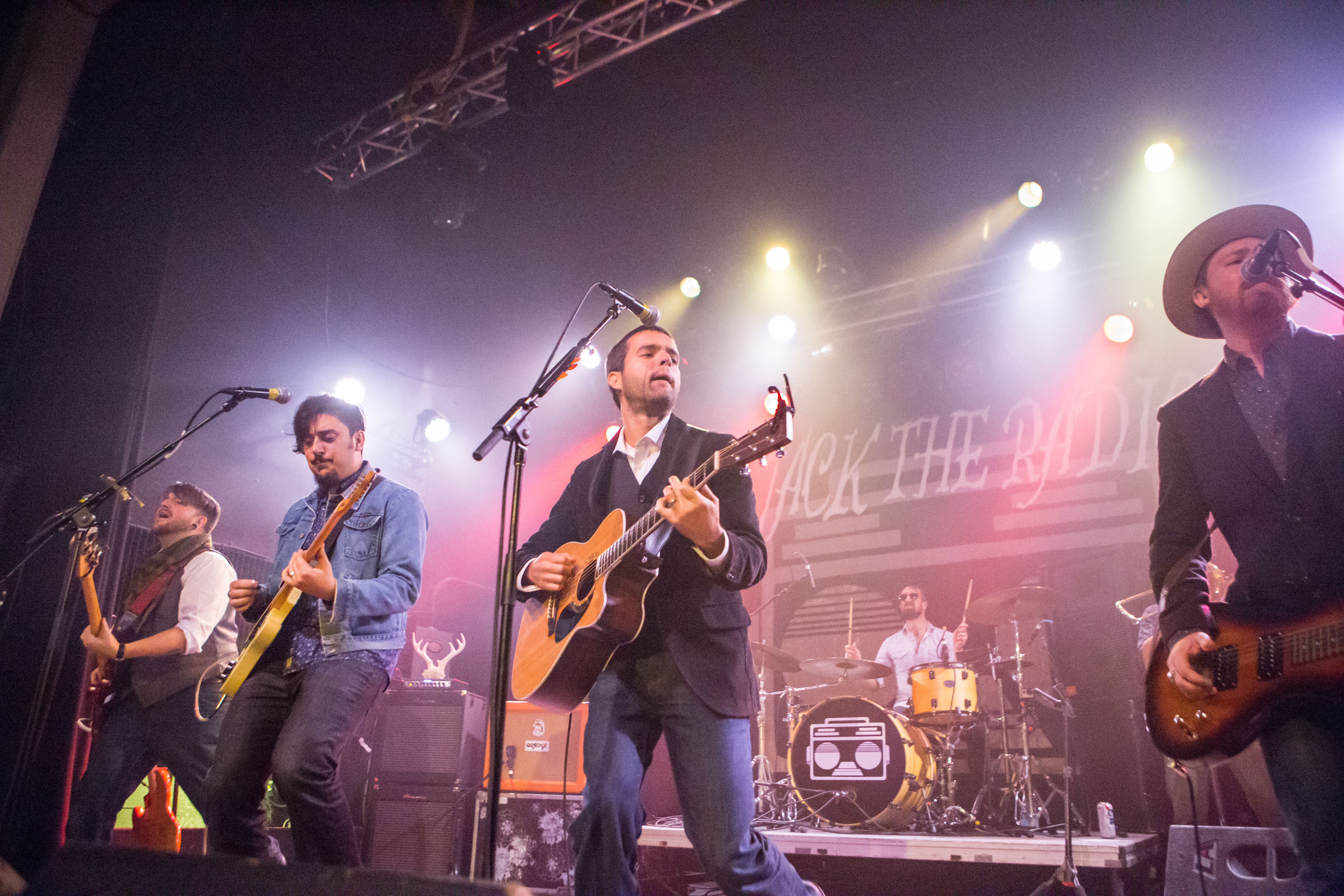 Jack the Radio in concert, Raleigh, NC, October 2015, shot for Oak City Hustle Magazine on 10/16/15